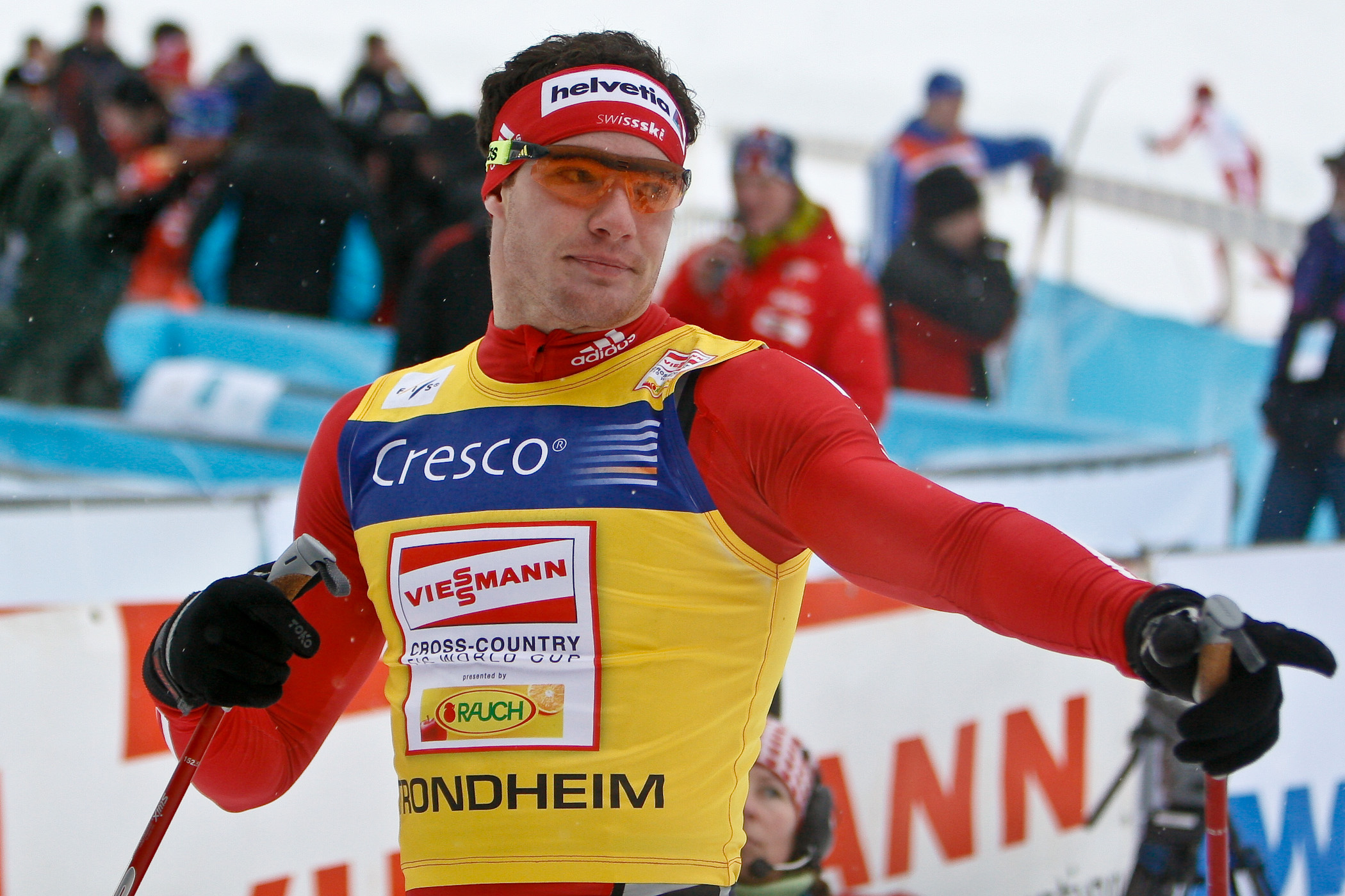 Dario Cologna at FIS Cross country skiing World Cup Trondheim 12 March 2009